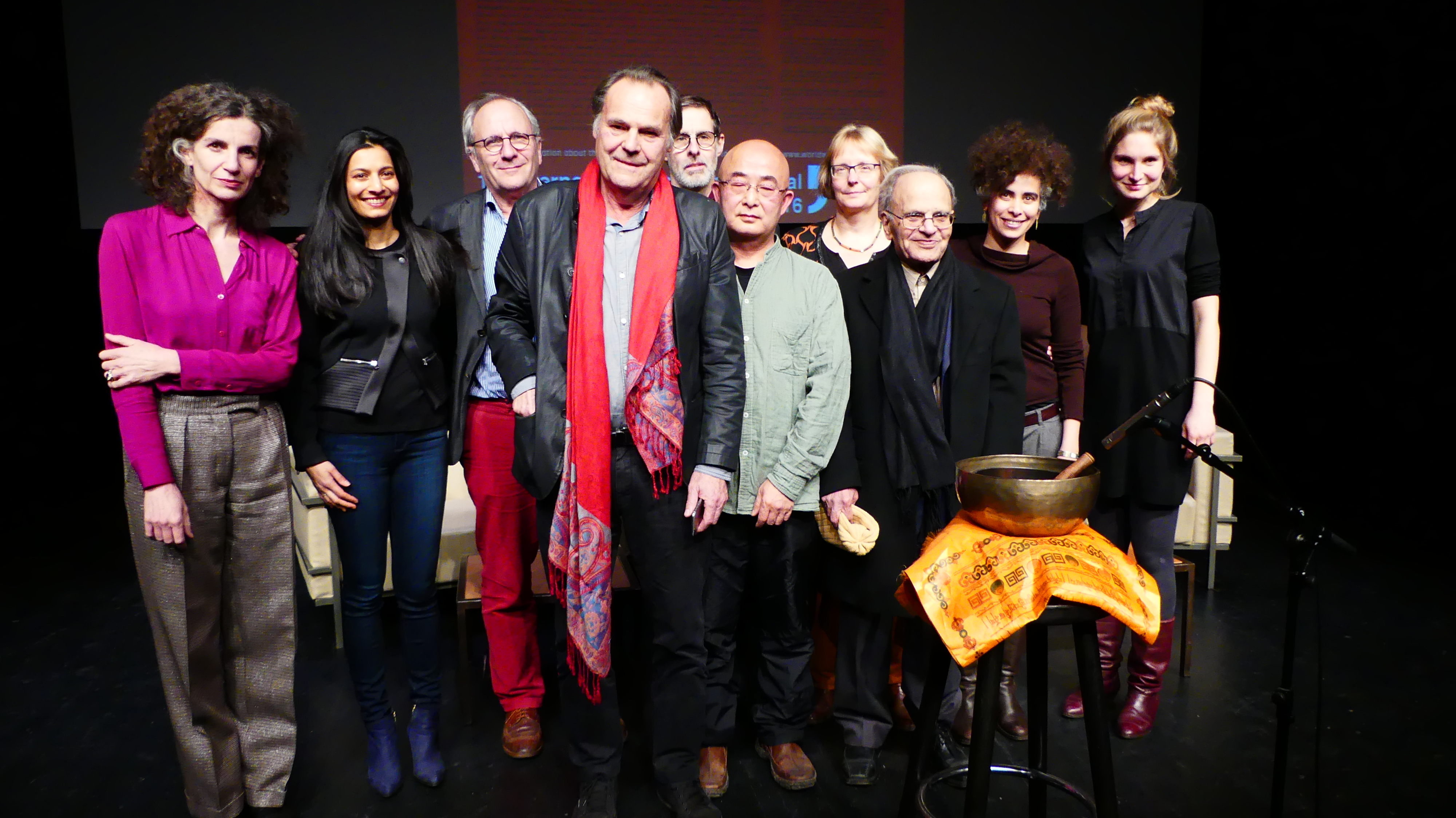 Worldwide Reading for Ashraf Fayadh on January 14, 2016, 7.30 p.m., at Hebbel am Ufer in Berlin. Participants and organizers: Annemie Vanackere, Priya Basil, Ulrich Schreiber, Peter Schneider, Frank Arnold, Liao Yiwu, Ulrike Freitag, Fadhil al-Azzawi, Adania Shibli, Sophie Gruber.